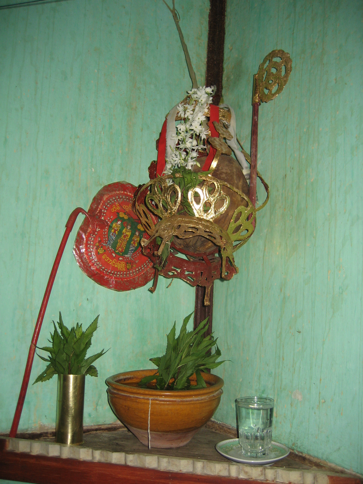 Nat oun coconut with its stalk intact hung in the southeast corner of a private home in Mandalay, in a gilded hanging basket adorned with ribbons, jasmine chains and fans, with offerings of green sprigs and water. A small curtain must screen it from any light at night - strictly speaking open flame as the nats in their human incarnation were burnt to death. The entire east wall of this main upstairs room is occupied by a large altar for the Buddha, and I took this picture shortly after the family had offered food (hsoon) to a line of dozens of monks on their morning round with their alms bowls (thabeiks).